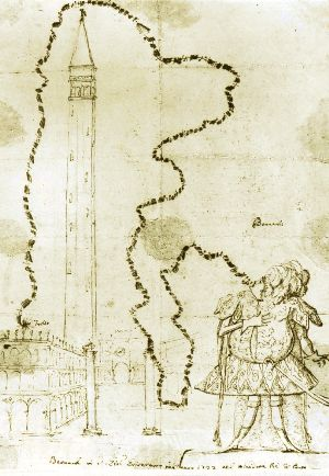 a creproduction of a caricature by Zanetti of the castrato Antonio Maria Bernacchi